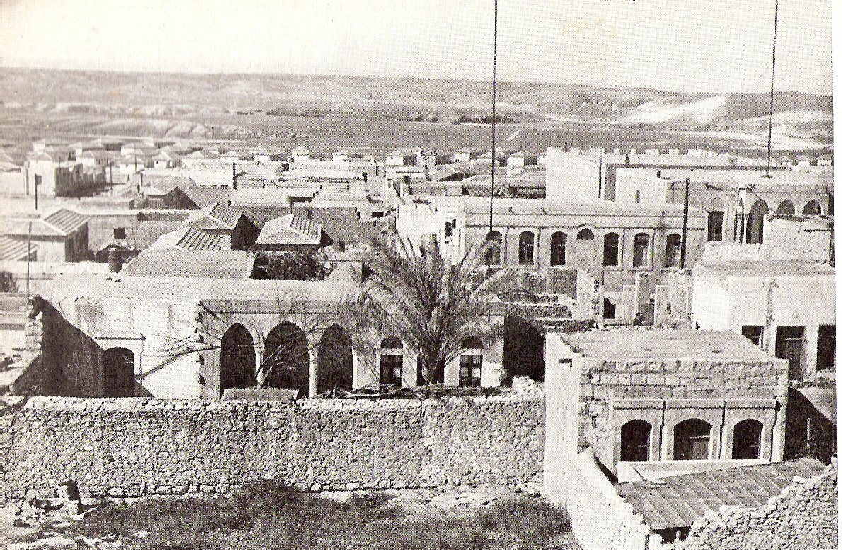 A view of Beersheba around 1950 with new buildings being buit at the background.